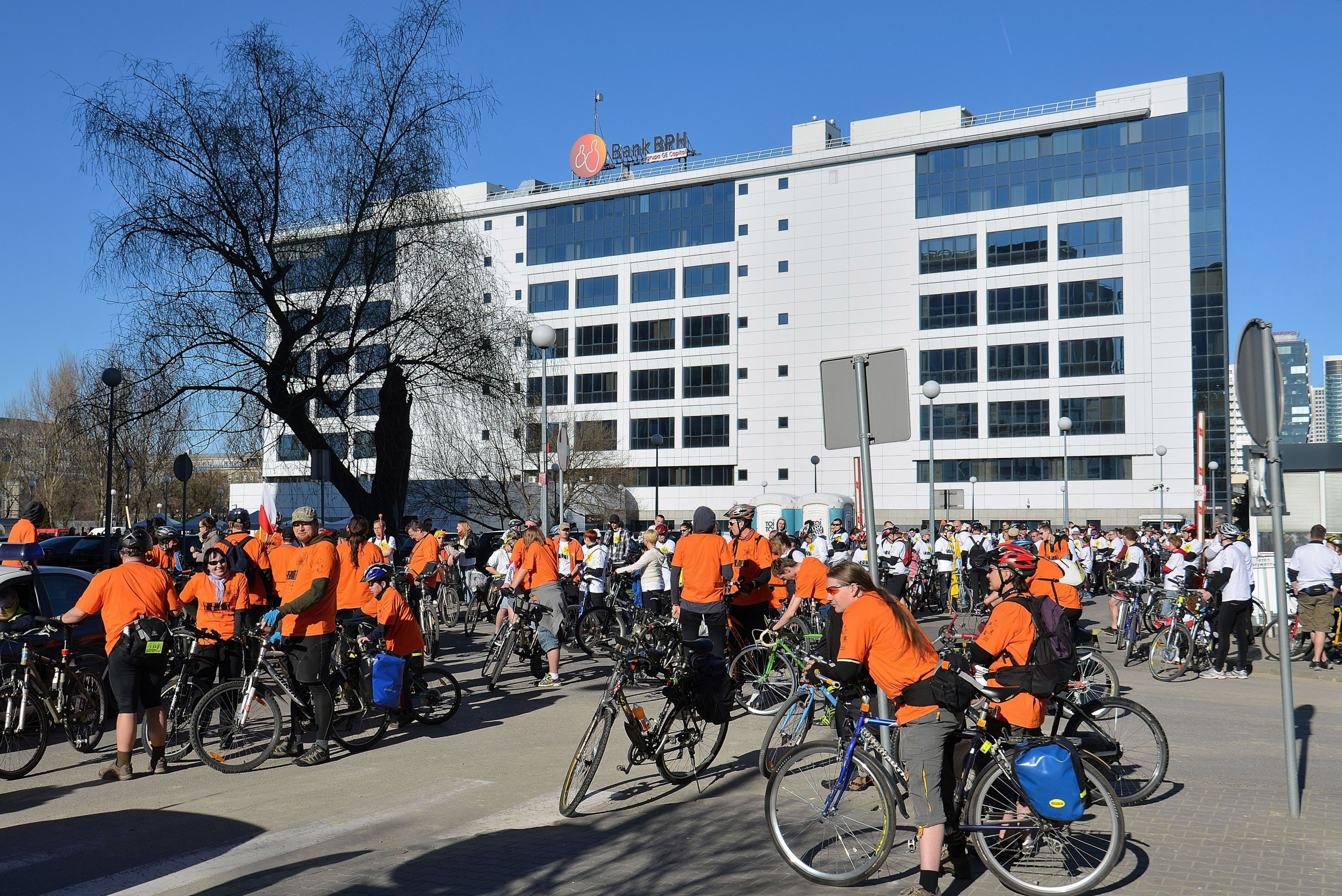 Warsaw Critical Mass - 1943 Mass. Tribute to the Heroes of the Warsaw Ghetto (start, Warsaw Uprising Museum, 21 April 2013)